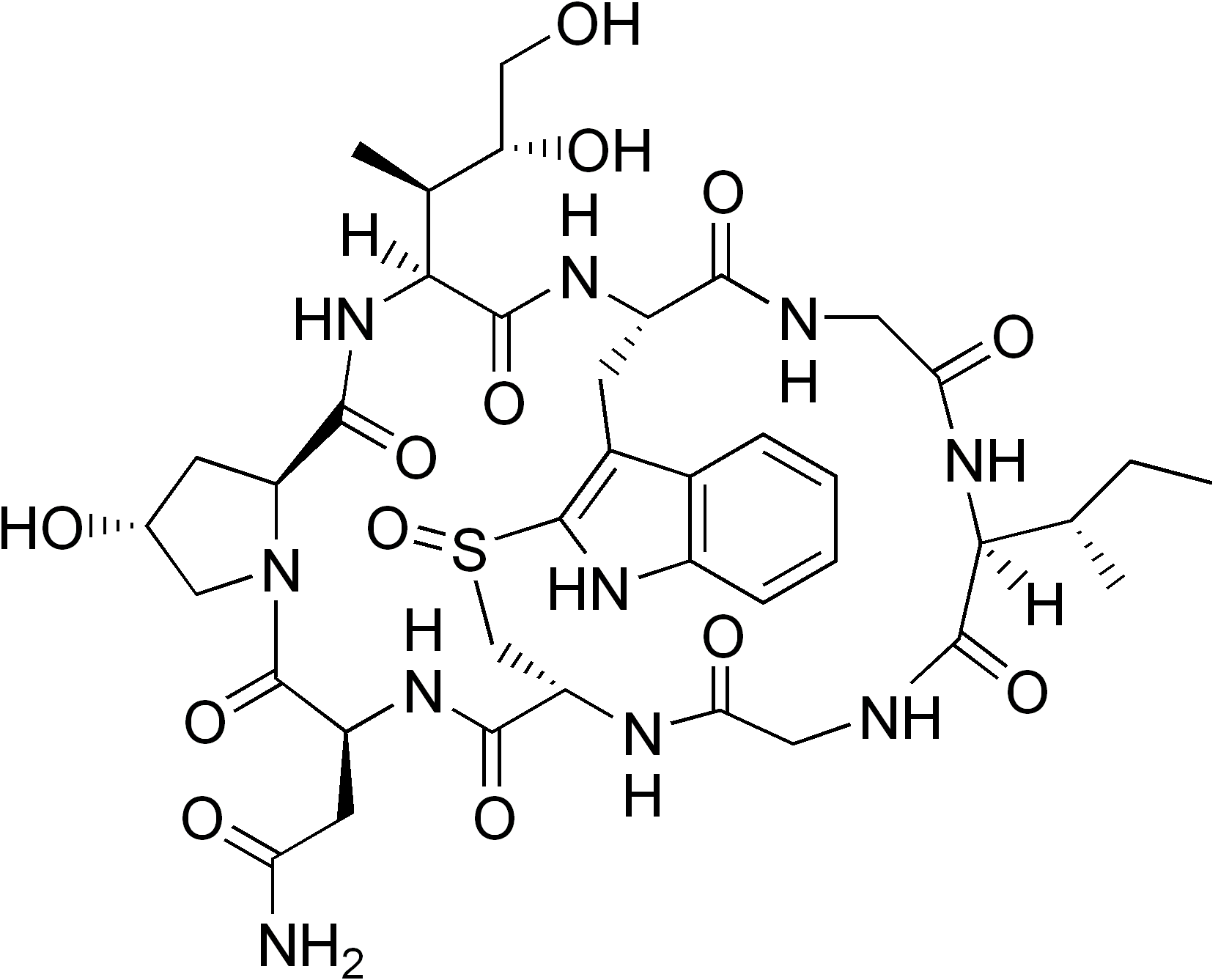 chemical structure of the amatoxin aminamide